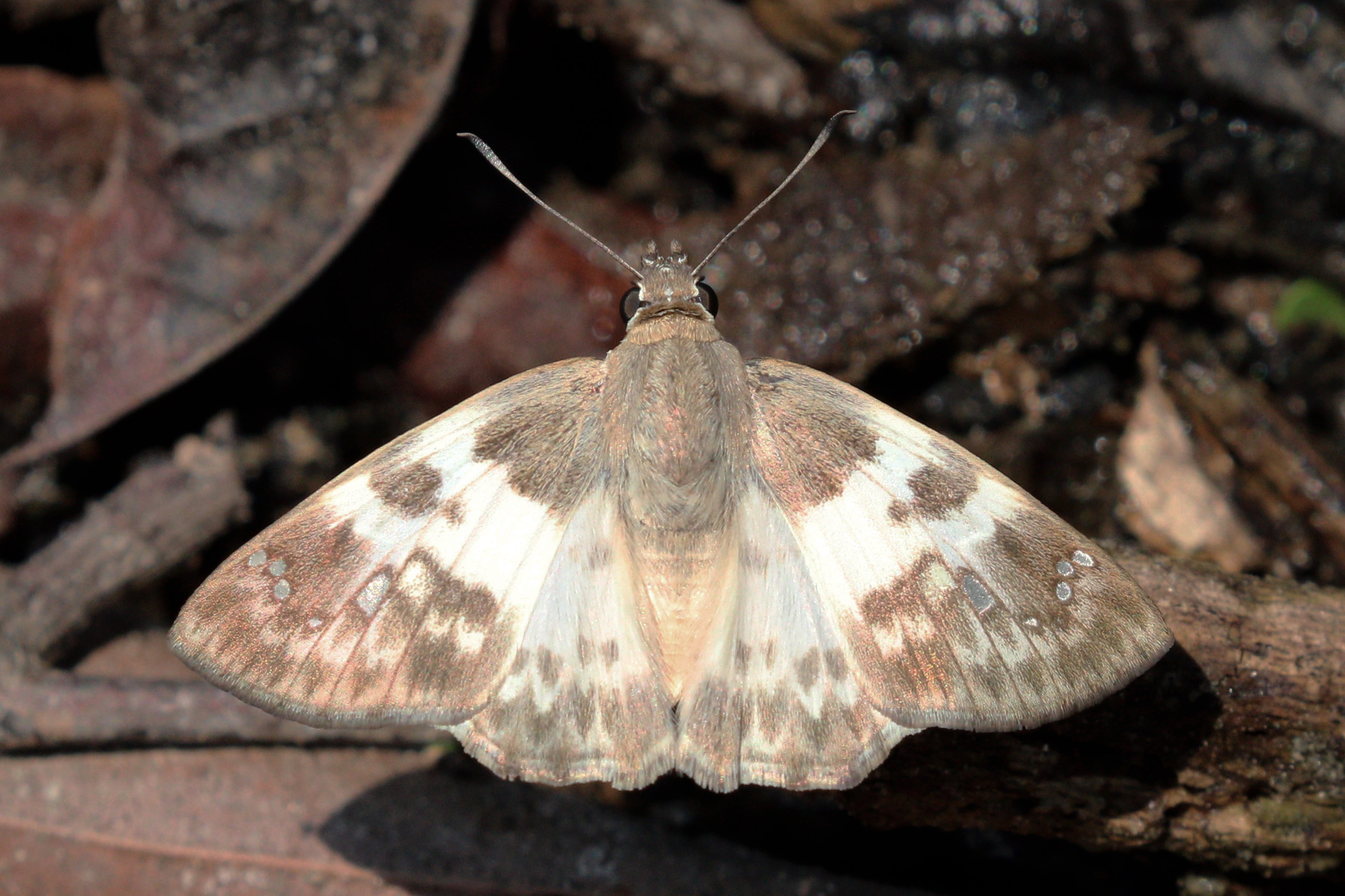 Polyctor skipper (Polyctor polyctor), Cristalino River, Southern Amazon, Brazil